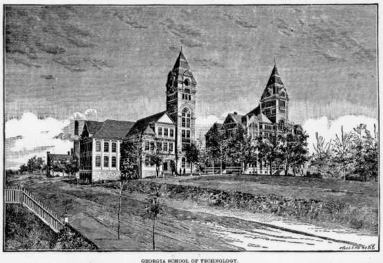 Engraving of the early Georgia Institute of Technology campus (then Georgia School of Technology), published in the 1888-89 Annual Catalogue.